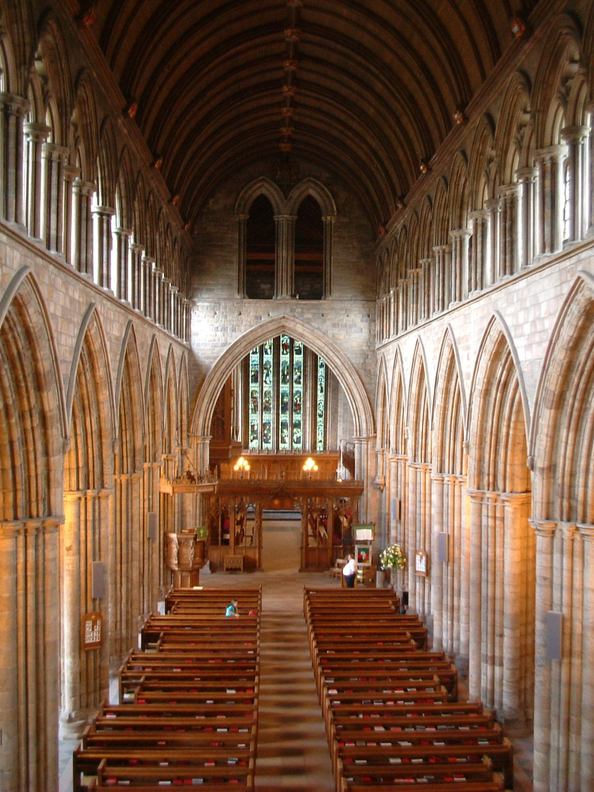 Dunblane Cathedral, Scotland